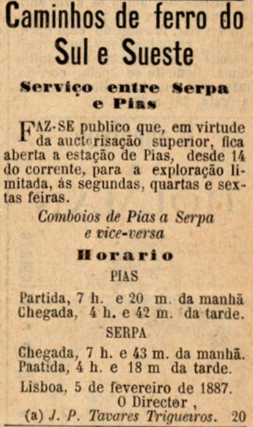 Advertisement of the Caminho de Ferro do Sueste (Portuguese Southeastern Railway) about the opening of the section between Serpa (Brinches) and Pias of the Moura Branch Line, on the 14th February 1887. This image was published on the Diario Illustrado newspaper No. 4955, of 7th February 1887, and scanned by the Biblioteca Nacional de Portugal.